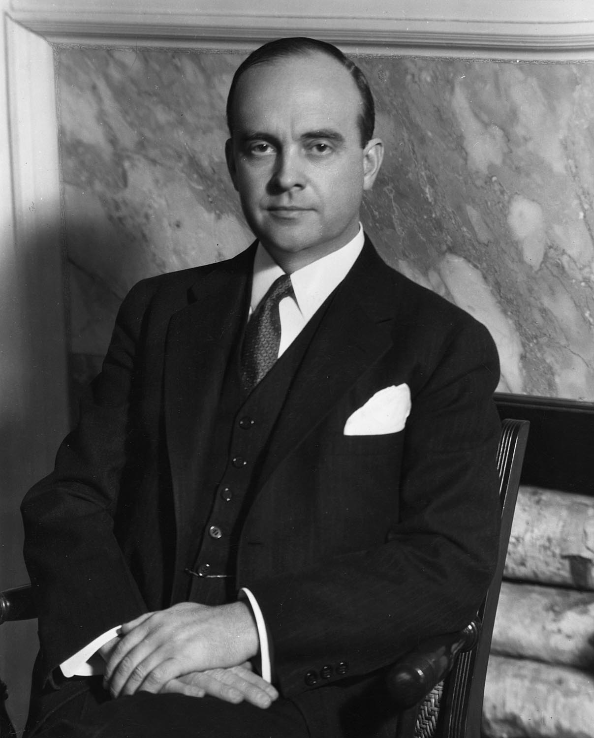 From the archives: "Glenn Frank in 1935. He served as the president of the University of Wisconsin--Madison from 1925 - 1937." Local identifier: UW.UWArchives.031103as03.bib